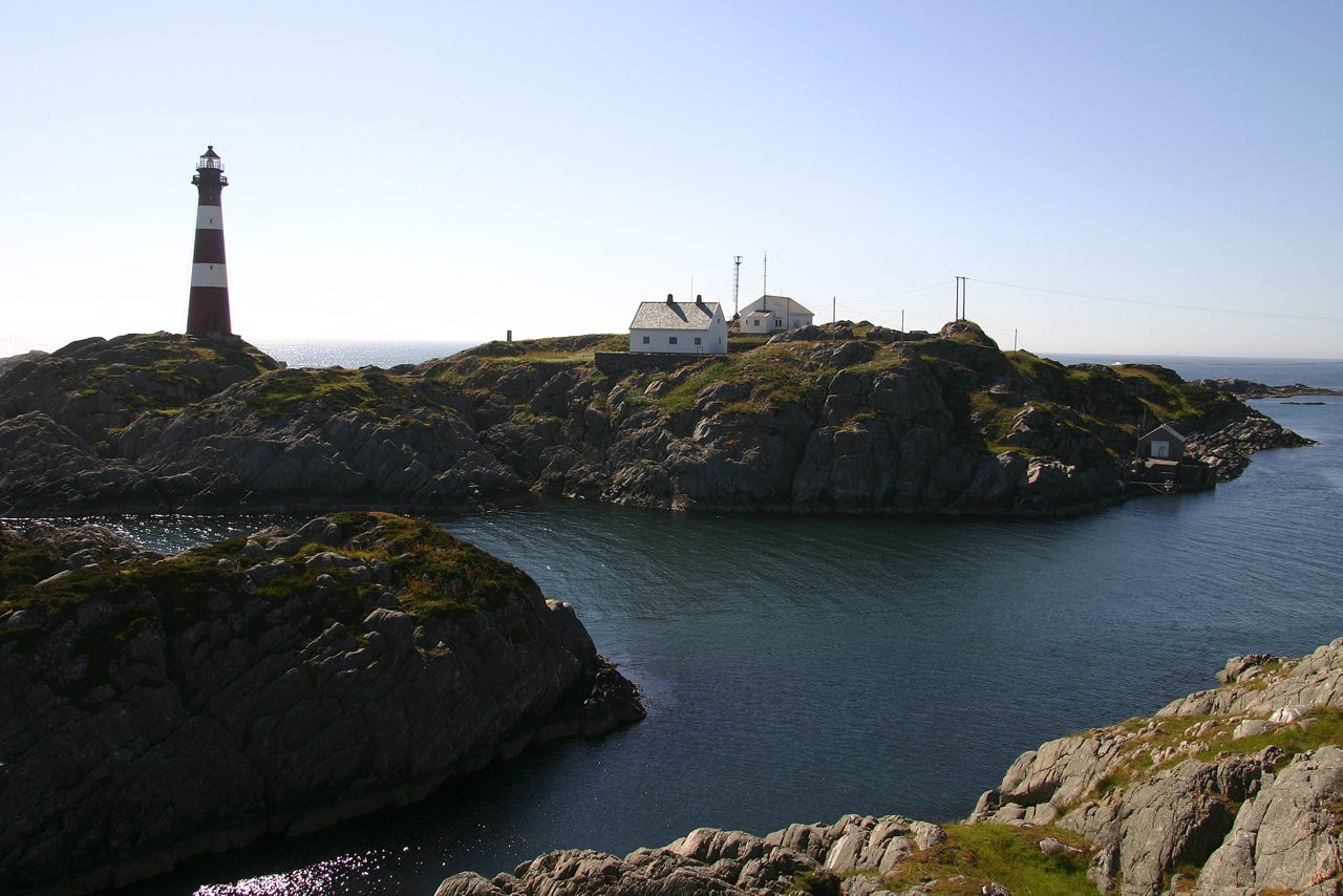 Hellisøy fyr (lighthouse) at Fedje, Hordaland - Norway